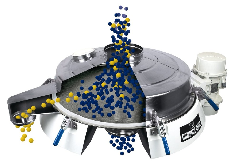 Russell Compact Sieve